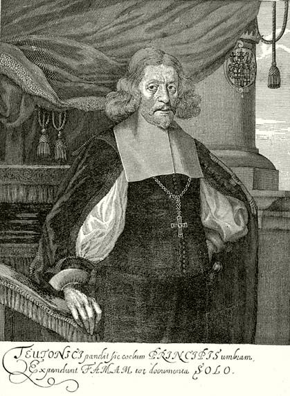 Johann Kaspar II von Ampringen